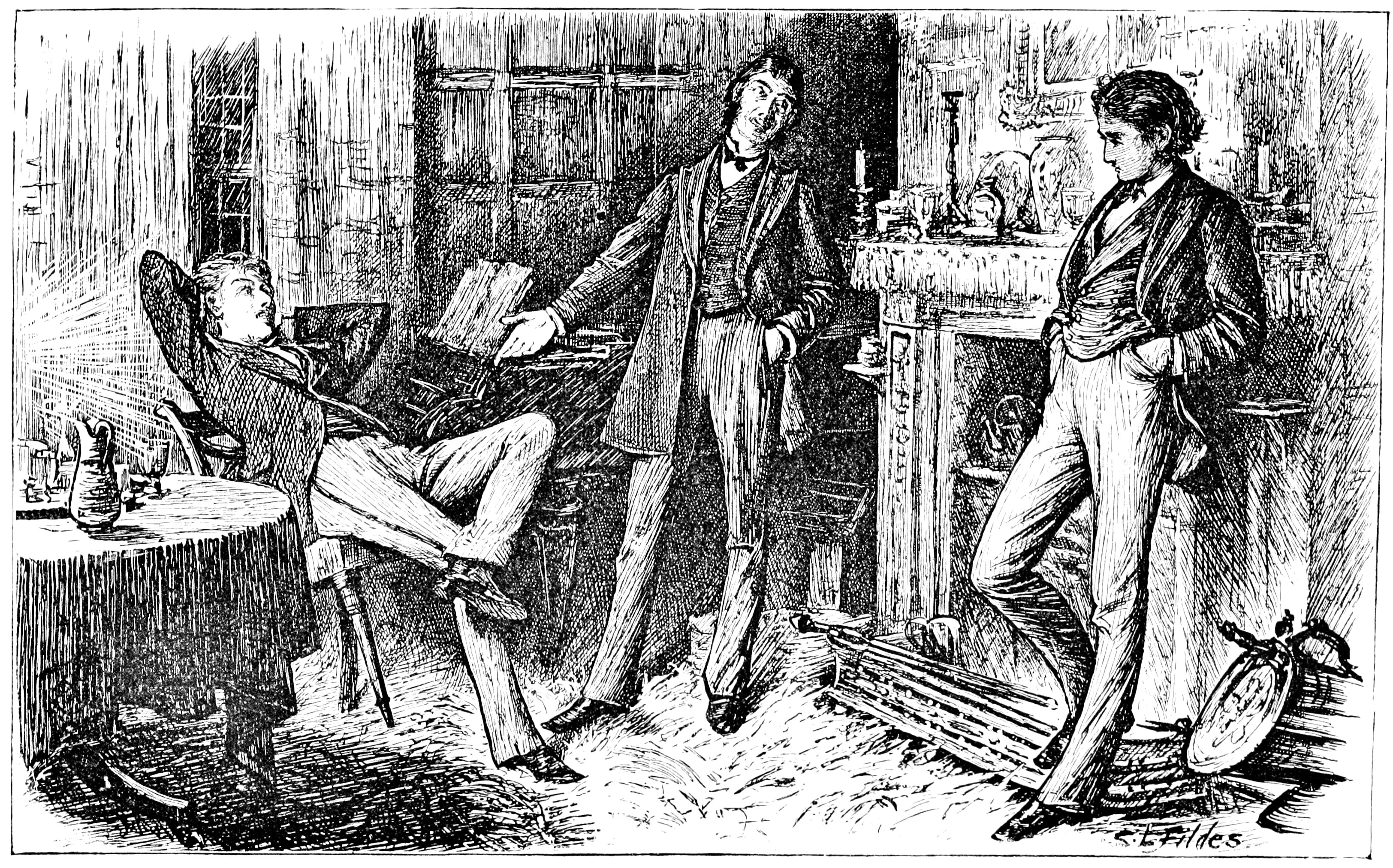 Illustration from the book, The Mystery of Edwin Drood, written by Charles Dickens, illustrated by Luke Fides